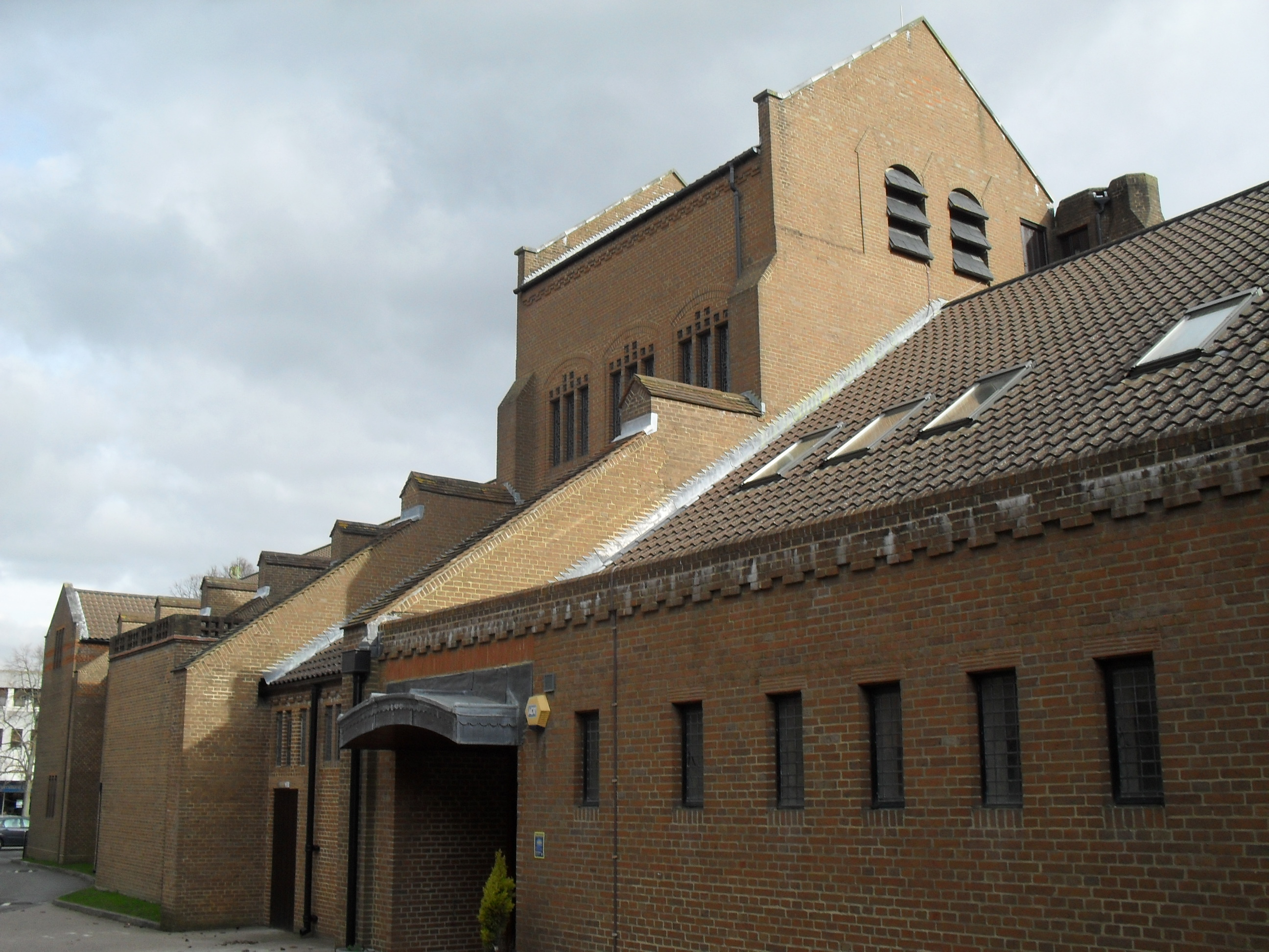 Side view of the Friary Church of St Francis and St Anthony, a Roman Catholic church in Crawley, West Sussex, England. This shows the saddleback tower and polychromatic brickwork of architect Harry Stuart Goodhart-Rendel.